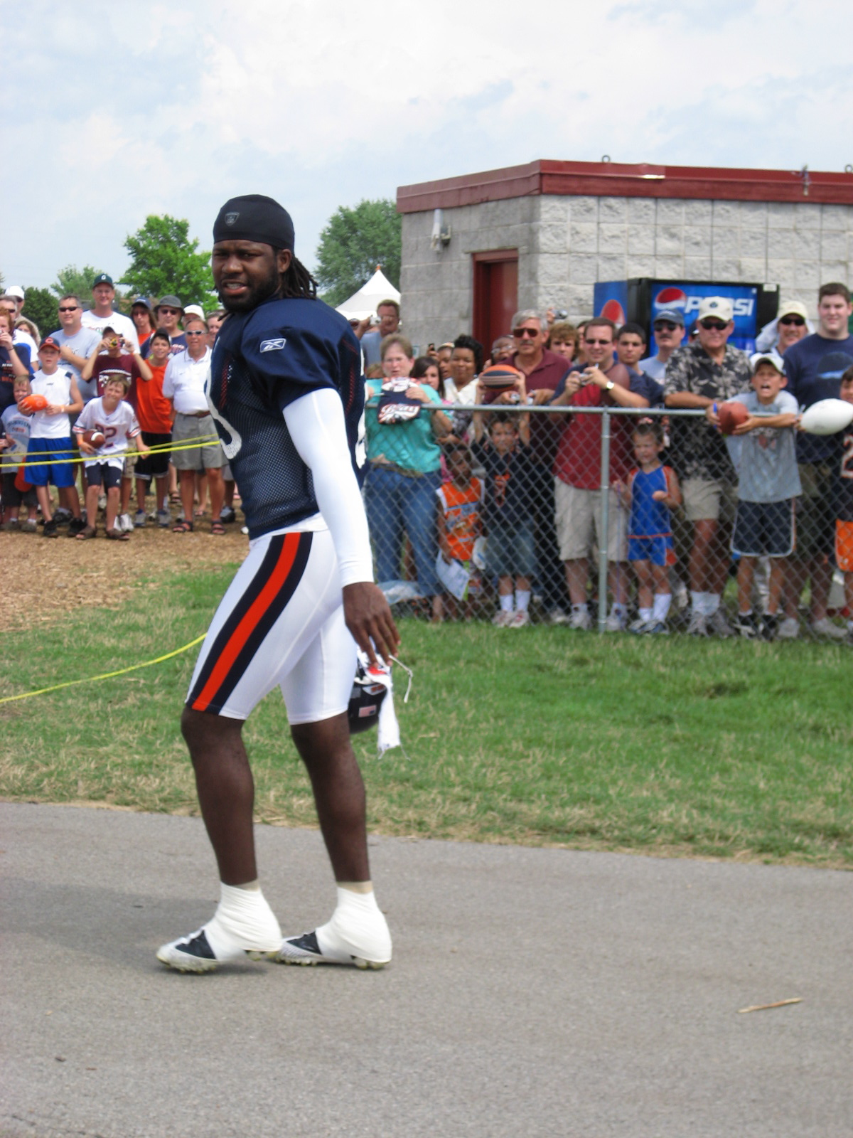 Devin Hester of the Chicago Bears